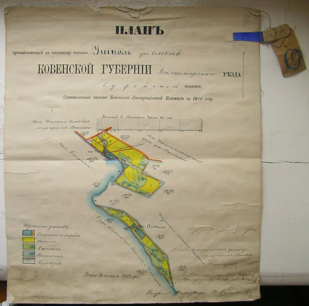 A plan of a northern part of Alaušas lake (Utena district, Lithuania). The plan was painted in 1870.